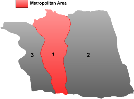 Map of Turpan prefecture in Xinjiang province